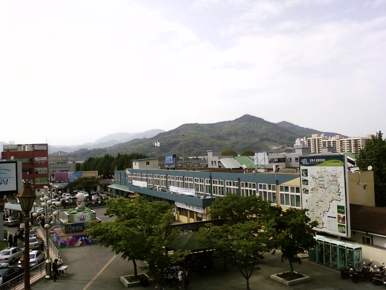 Gimcheon Station in Gimcheon, Korea